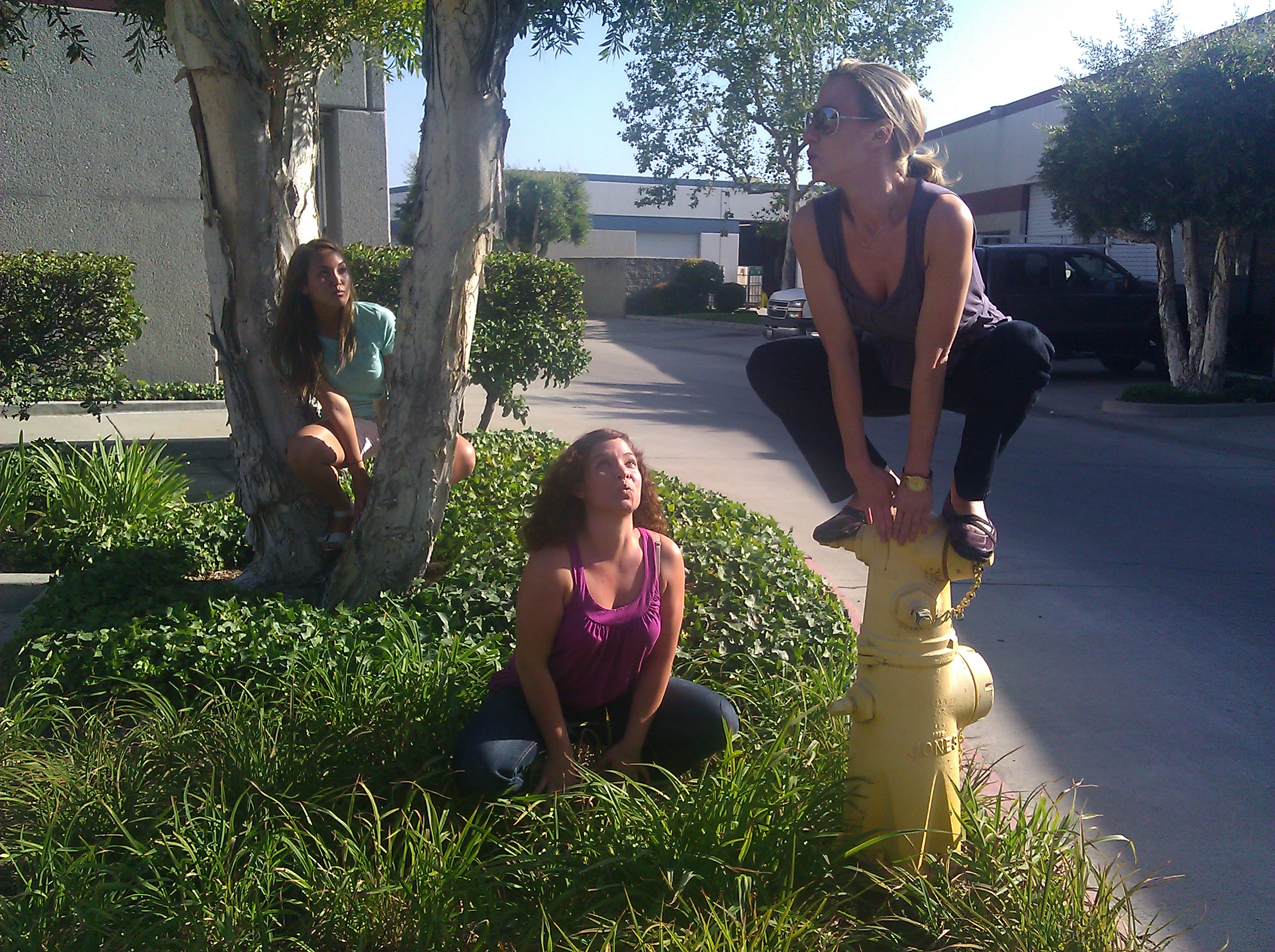 Afternoon Owling with BCI